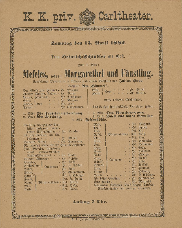 Julius Hopp's operetta Mefeles, oder Margarethel und Fäustling - theatrical poster to a 1882 Vienna Carltheater production